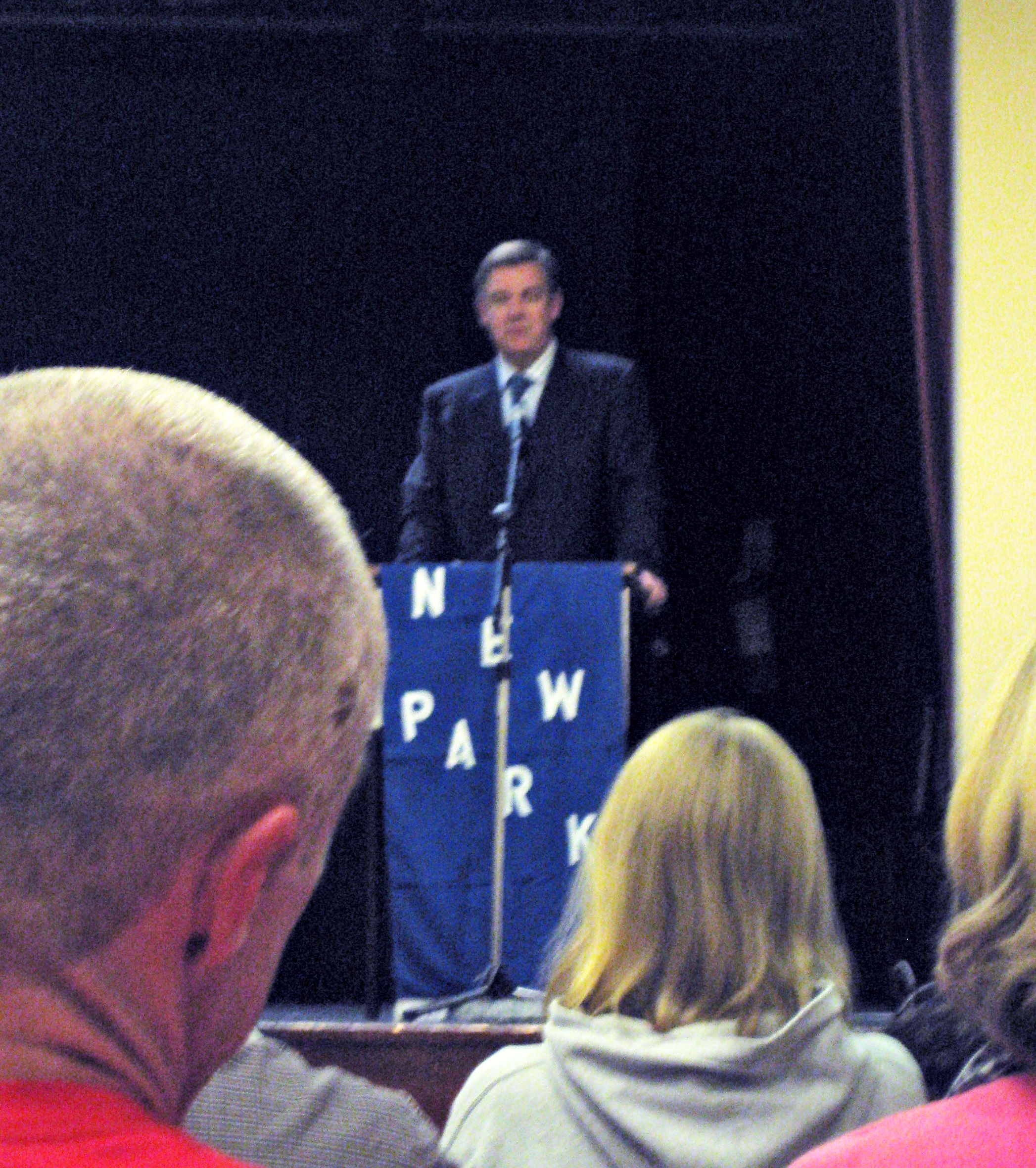 Bryan Dobson of RTÉ News and Current Affairs speaking at a public event.